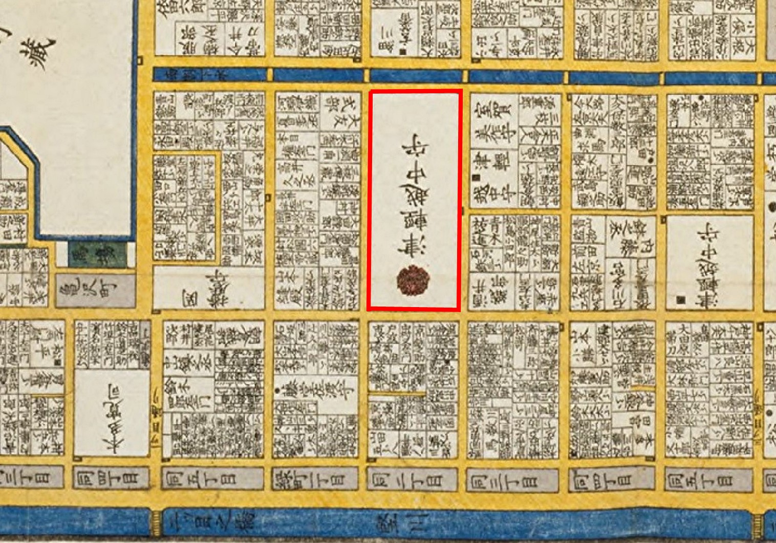 Residence Tsugaru clan at Edo 2